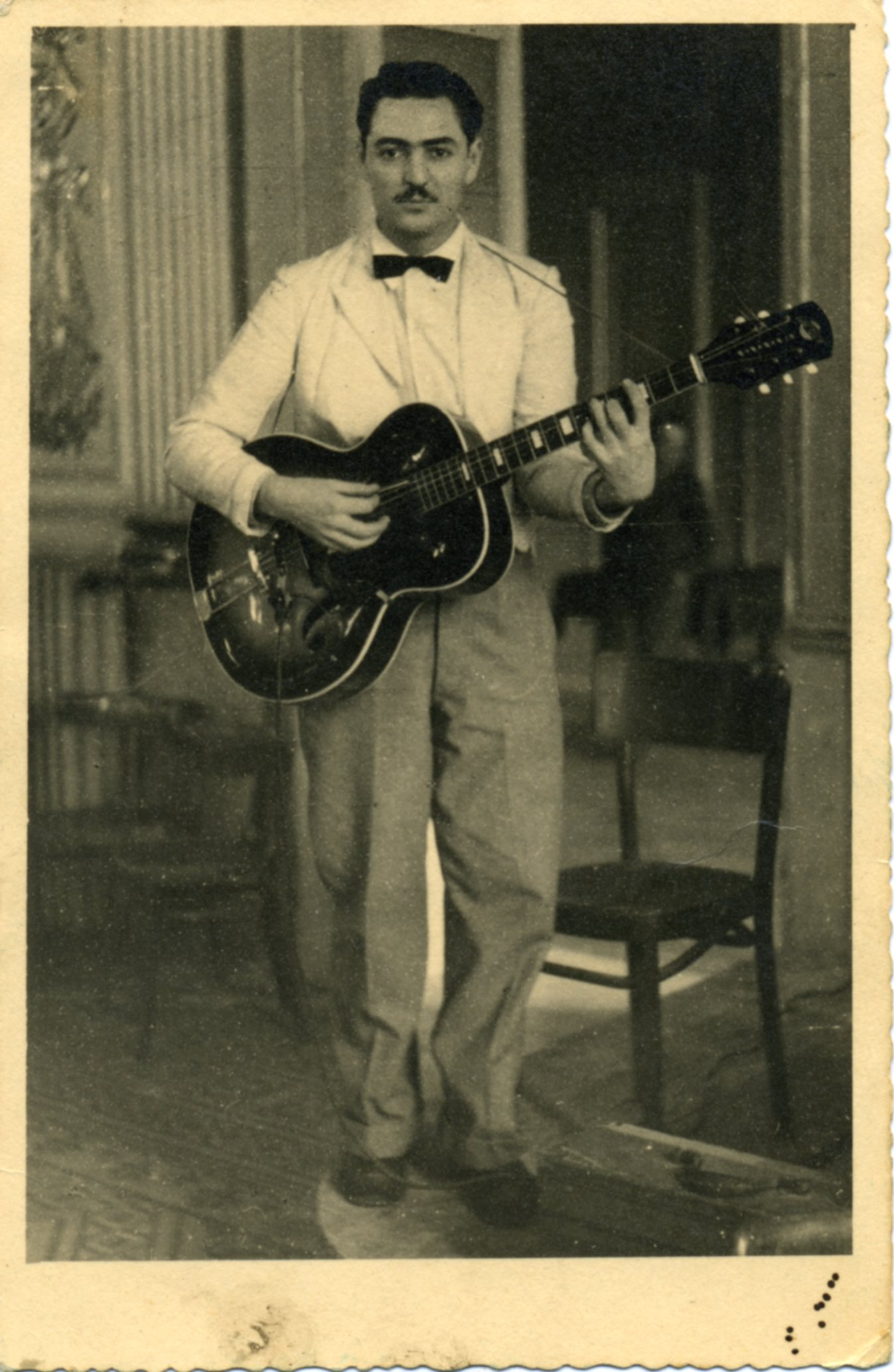 Pino Rucher at the Petruzzelli Theatre in Bari